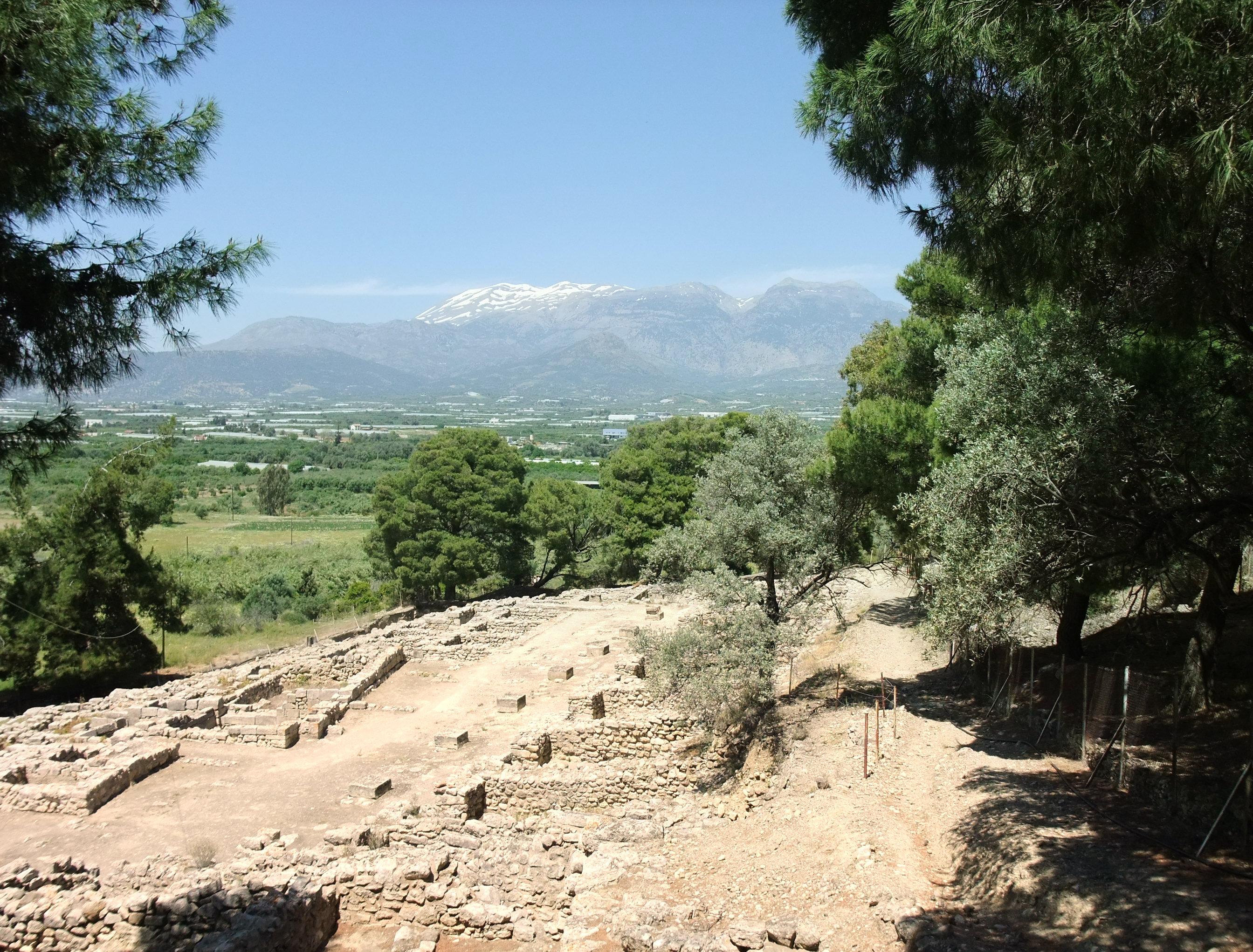 Archaelogical site Agia Triada, Crete, Greece